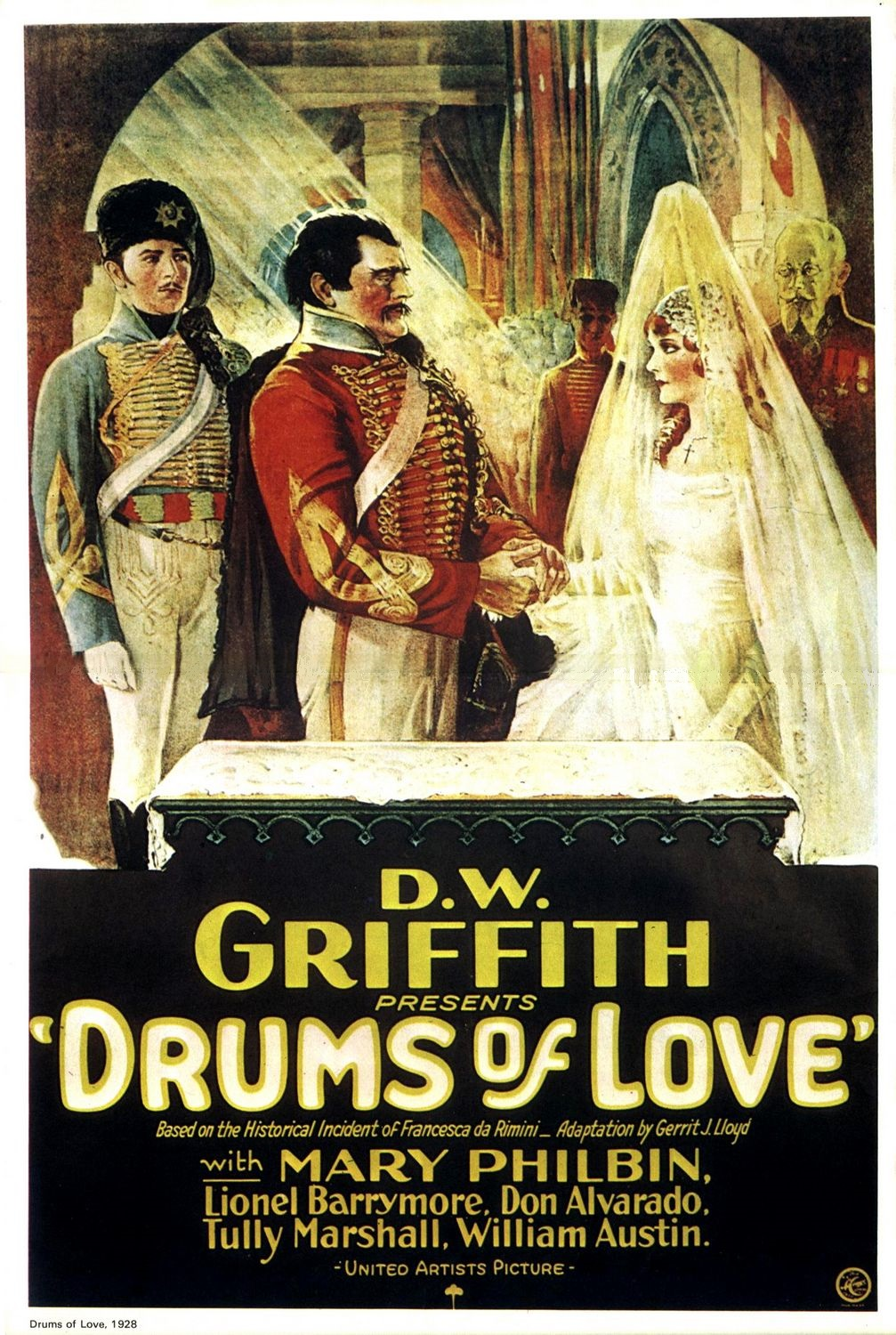 Poster for the 1928 film Drums of Love. The item has no copyright markings on it as can be seen in the links above. At lower right is a logo for the Morgan Litho Company--they printed the poster. At lower left is Drums of Love 1928.